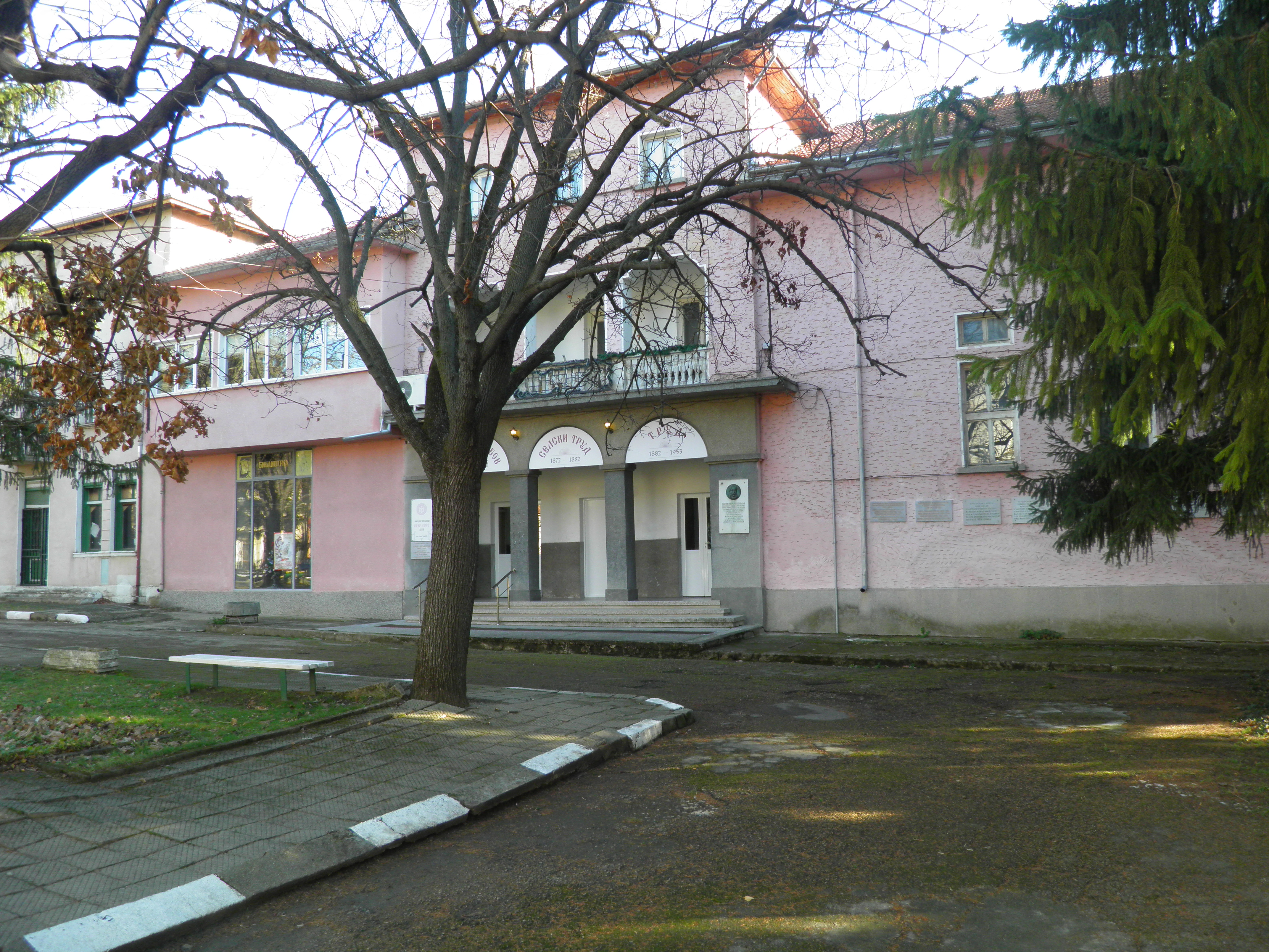 Читалище "Бачо Киро-1869"